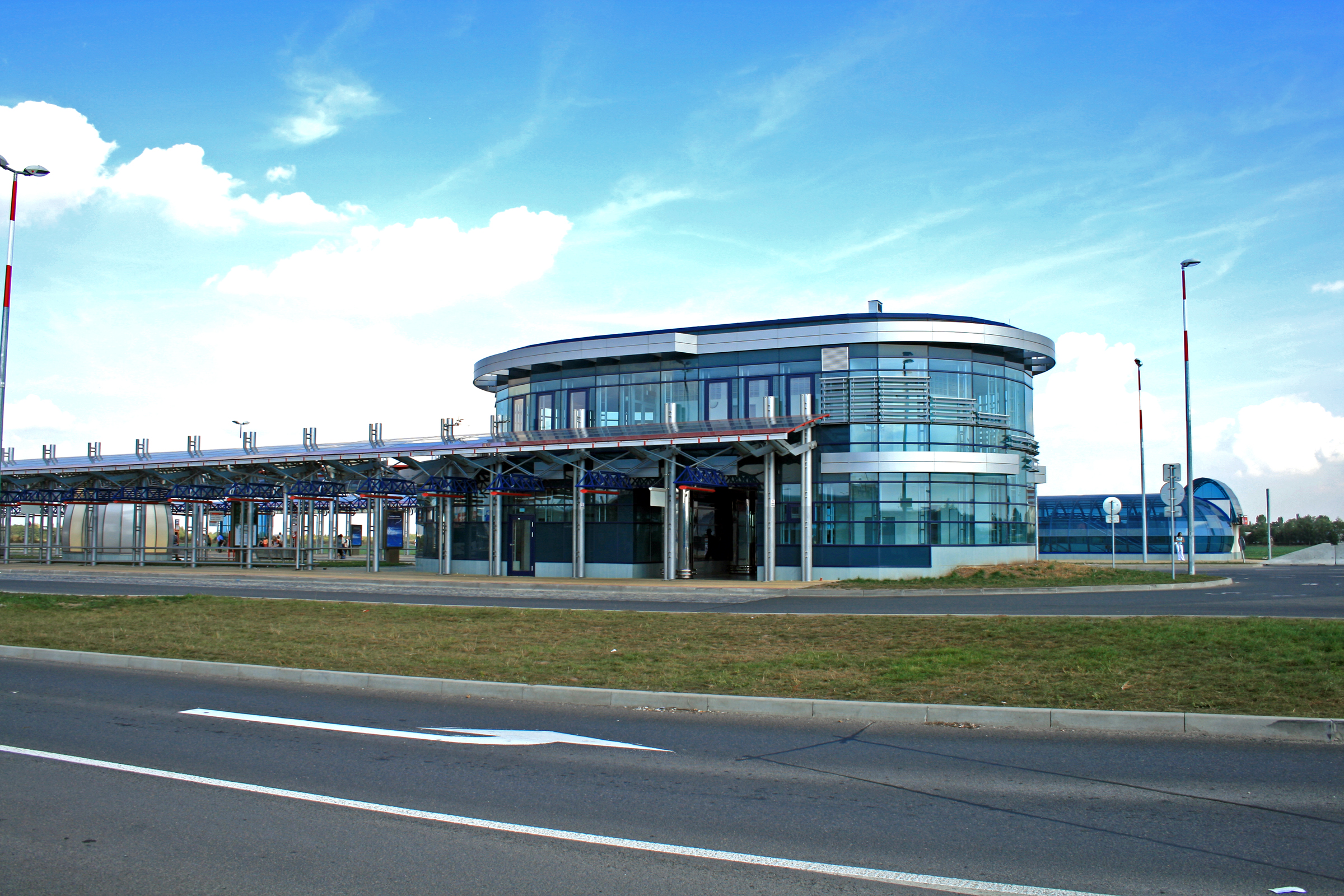 Prague Metro station Letňany